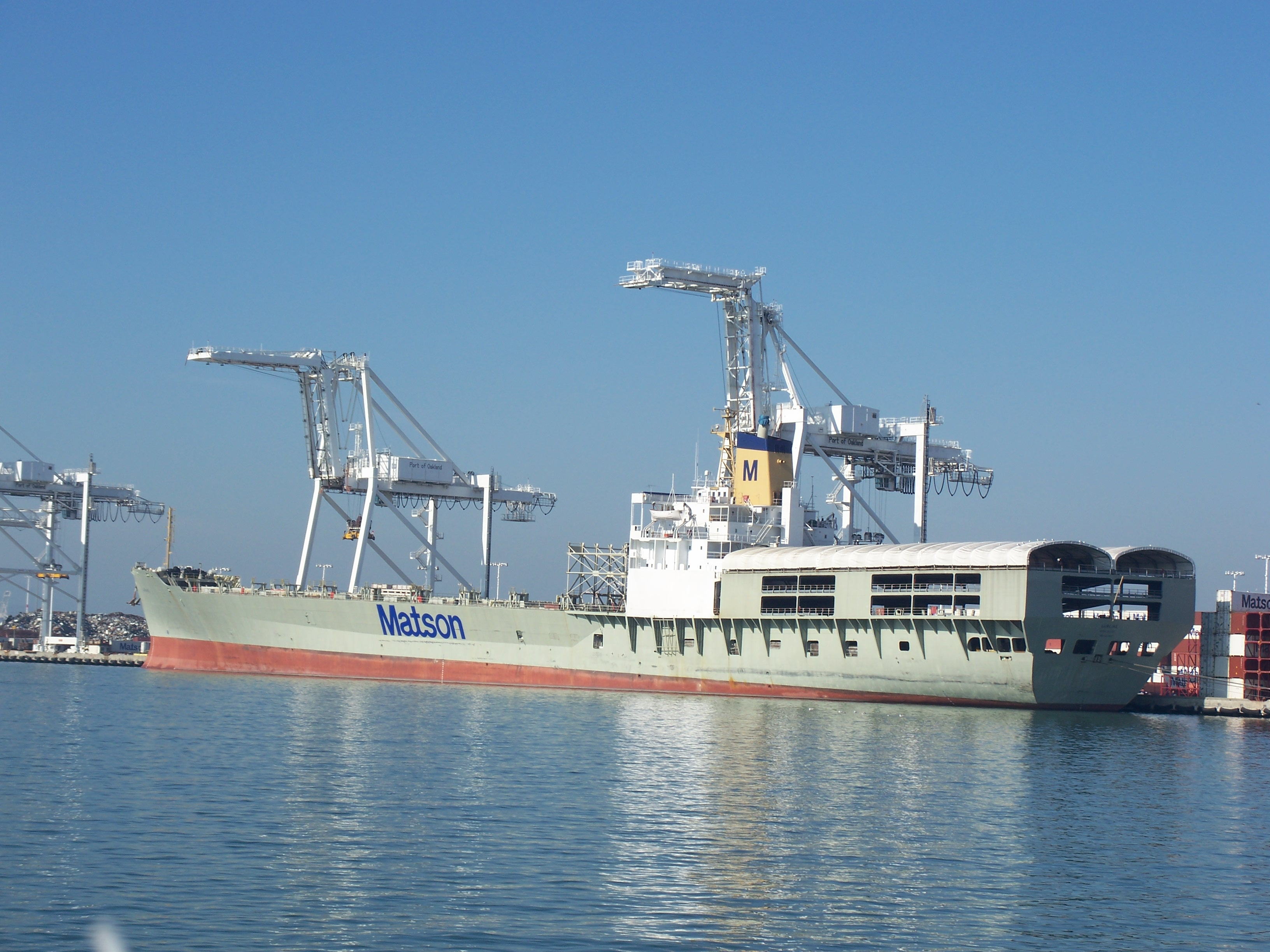 Port of Oakland. View from Alameda, California, USA